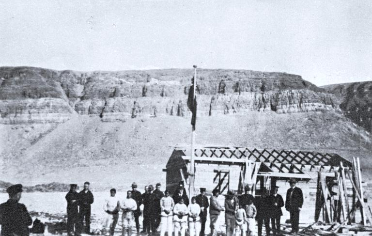 Photograph, R. C. M. P. depot under construction, Craig Harbour, Ellesmere Island, NU, 1926, Frederick W. Berchem, Silver salts - Gelatin silver process, 11.7 x 16 cm